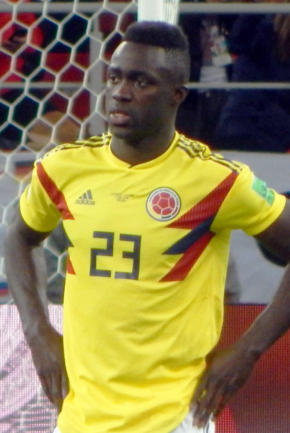 FIFA World Cup 2018, Round of 16, Colombia vs. England